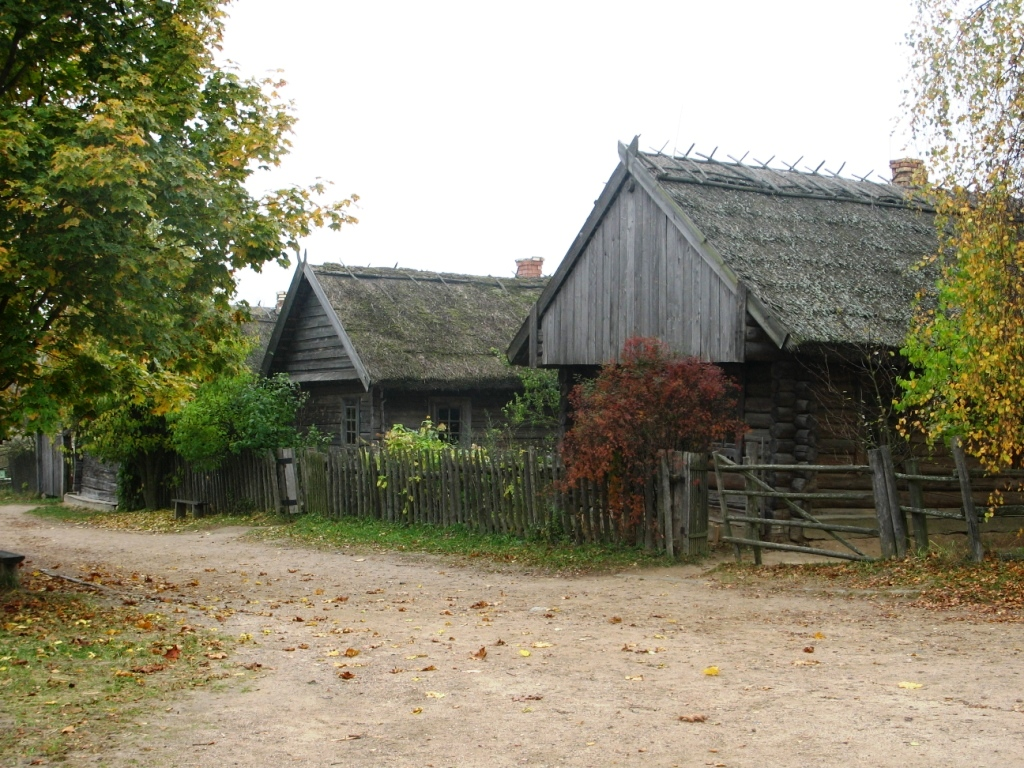 Traditional village of Belarus